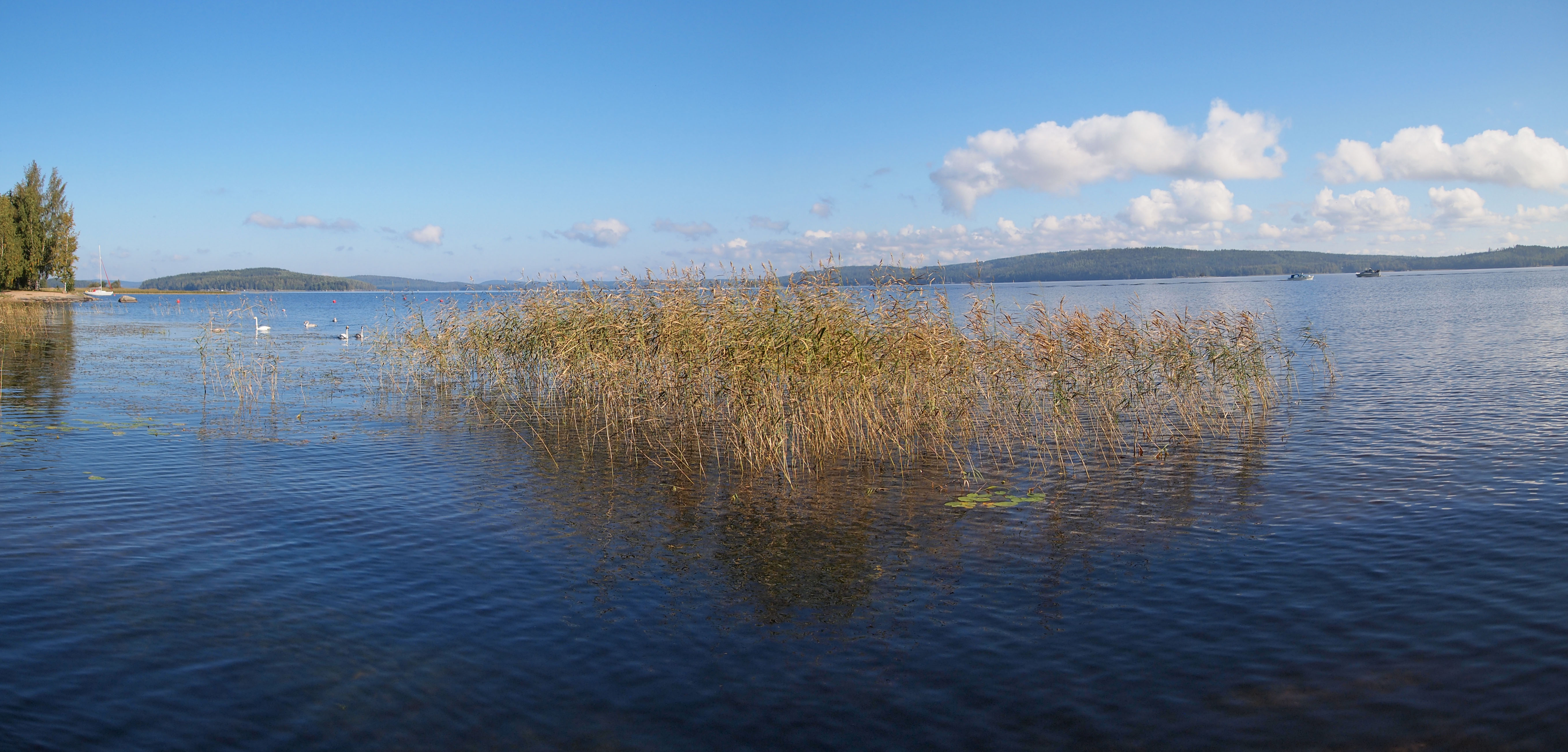 View from Säynätsalo, Jyväskylä.This photograph was taken with an Olympus E-PL1